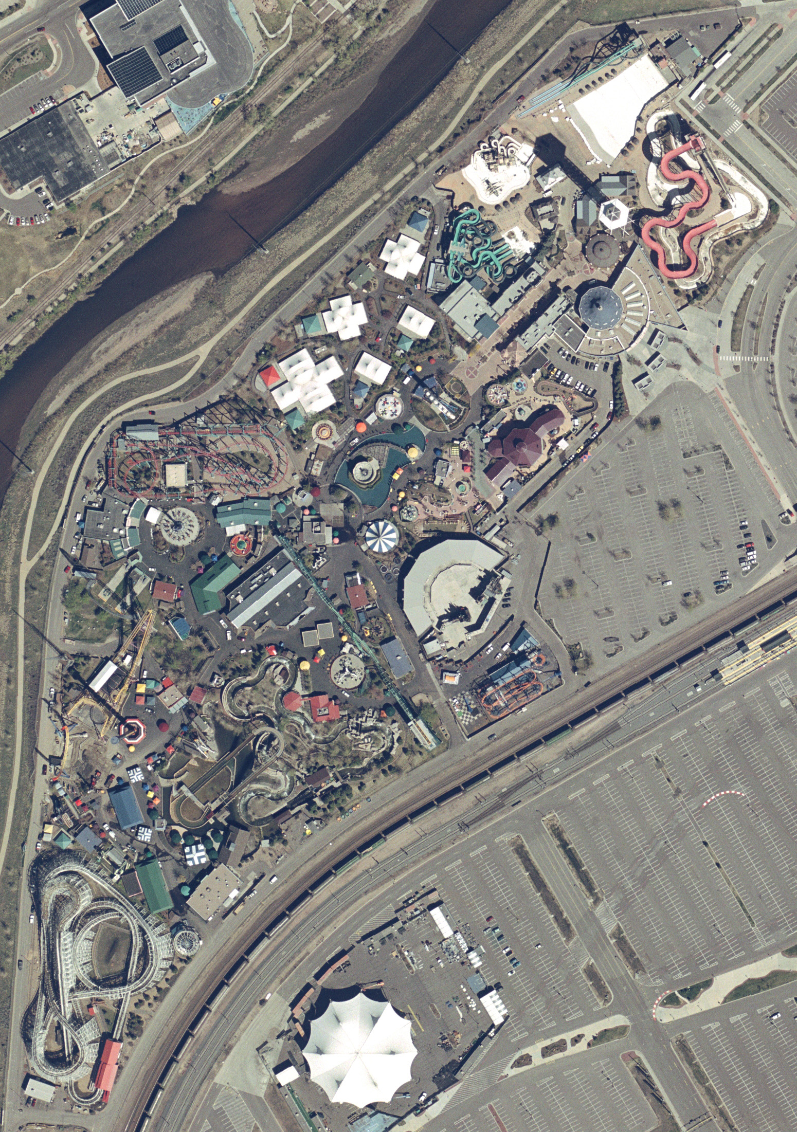 Elitch Gardens satellite view in April 2004. Parking lot is for Pepsi Center.